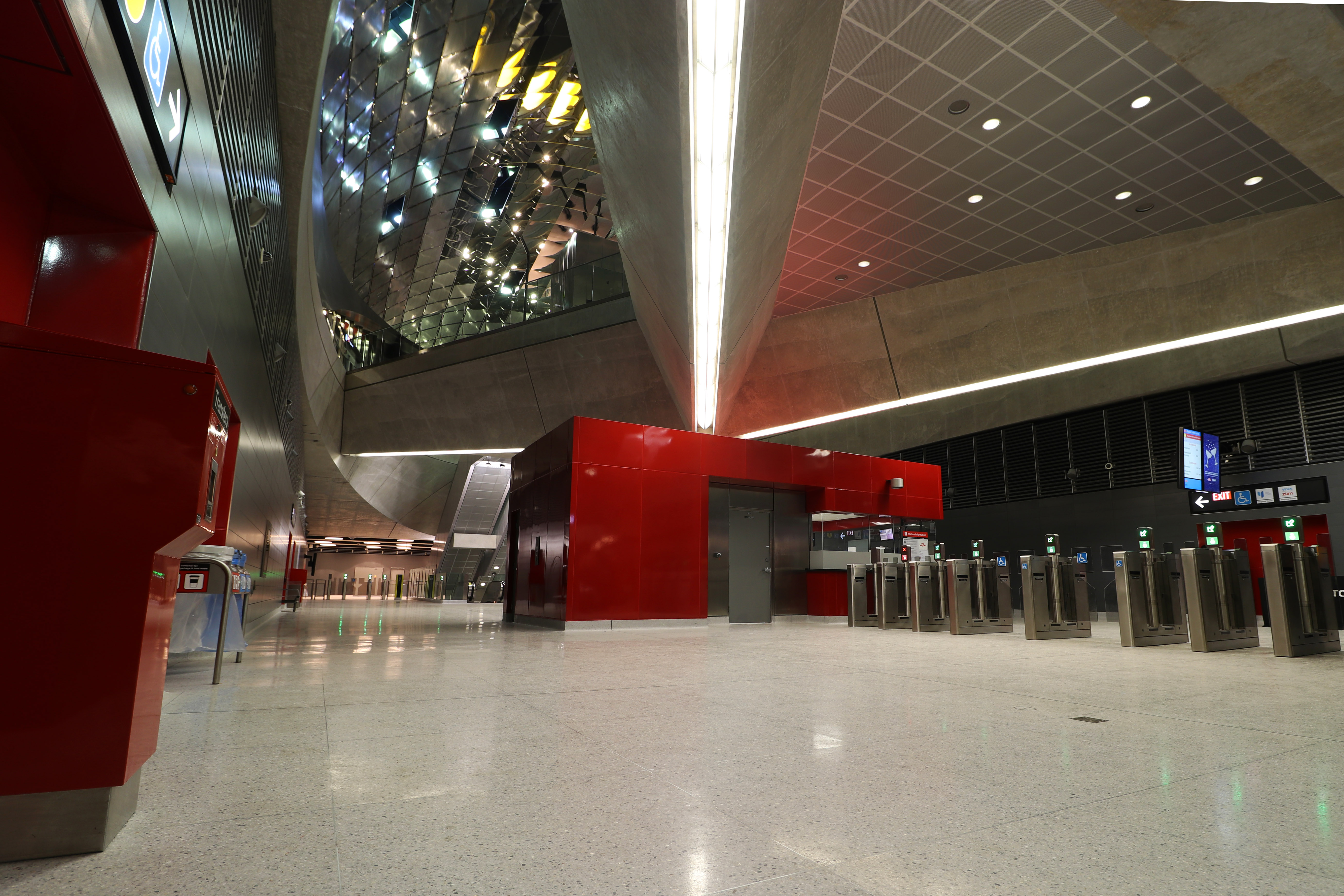 View of fare gate at Vaughan Metropolitan Centre station from fare paid area.